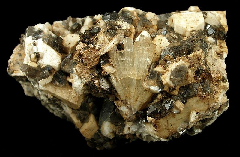 Milarite Locality: Middle Moat Mt. locality (Moat Mountain), Hale's Location, Carroll County, New Hampshire, USA (Locality at ) Size: 7.4 x 6.9 x 3.9 cm. This specimen is illustrated in Figure 18, page 294, of some old mineral book I have not tracked down yet, according to the note with the piece (if anyone knows, please tell me). The crystal spray is fully 2 cm, nicely protected in a pocket of feldspar and smoky quartz. Ex. Ken Hollman Collection. A note card with the piece, apparently from Ken, noted that this was bought from John Oliver, that it was "excellent," and that there is associated fluorite and also an unidentified mineral. He thought it worth noting that the piece had not been "acid cleaned" as well. A true East Coast rarity.